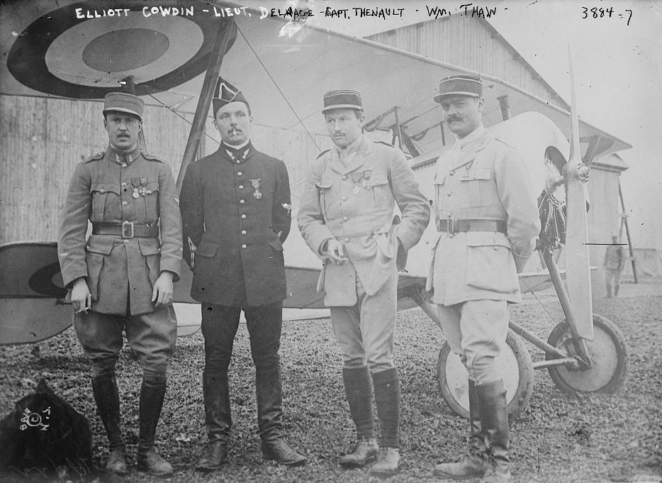 Captain Georges Thenault with squadron pilots, L-R: Sergeant Elliot Christopher Cowdin (New York City, USA), Lieutenant Alfred de Laage de Meux (Deux Sevres, France), Captain Georges Thenault (Paris, France), Lieutenant William Thaw (Pennsylvania, USA) Photograph shows members of the Lafayette Escadrille composed of American aviators who flew with the French air force during World War I. Shown are Elliott Cowdin, Lt. Alfred de Laage de Meux, Lieutenant Colonel Georges Thenault (commander), and William Thaw. (Source: Flickr Commons project, 2014)